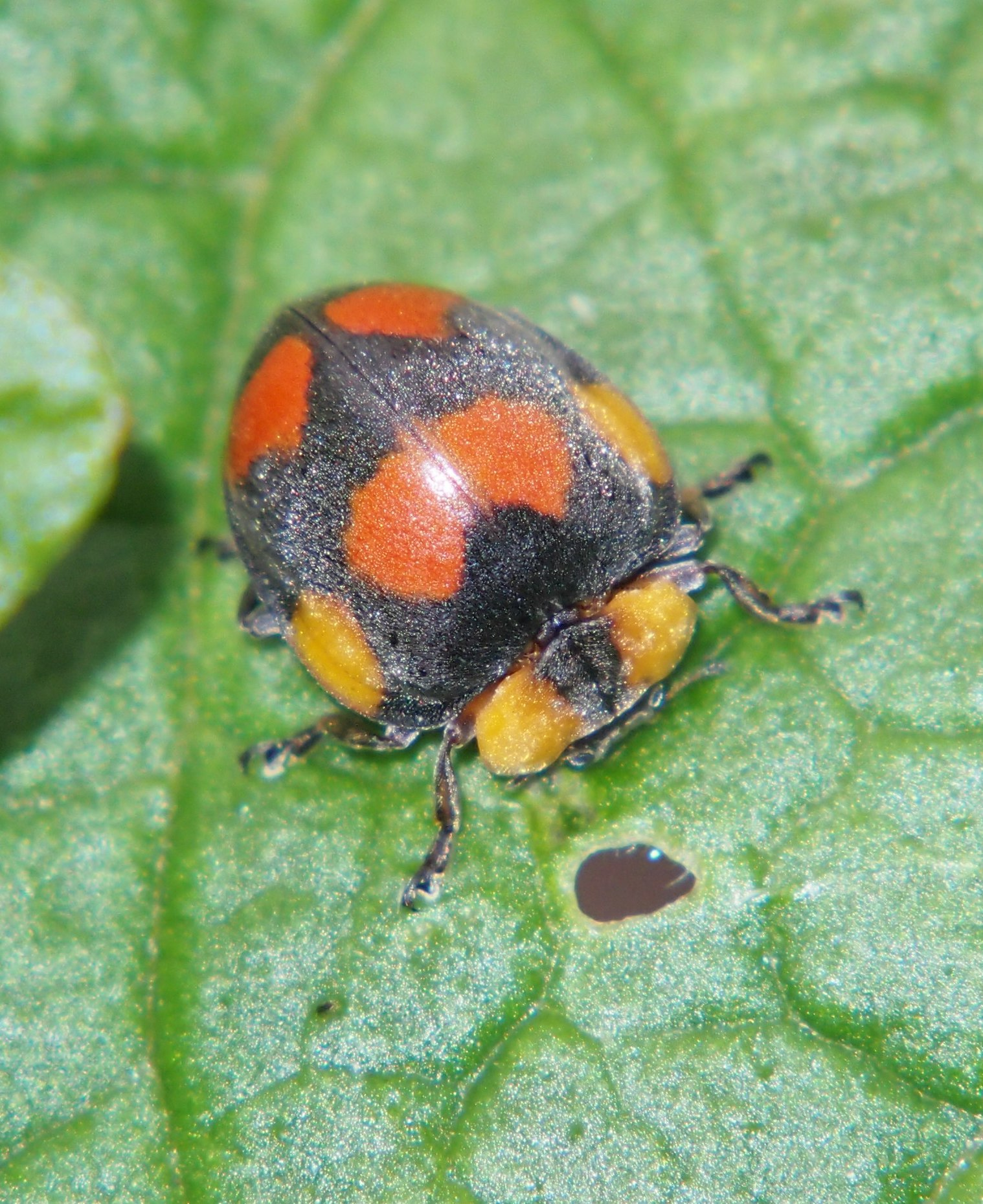 Henosepilachna guttatopustulata (Epilachna guttatopustulata) , the Large Leaf-eating Ladybird, on a potato leaf